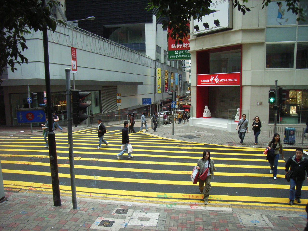 Pottinger Street is a stone step street in Hong Kong 砵甸乍街